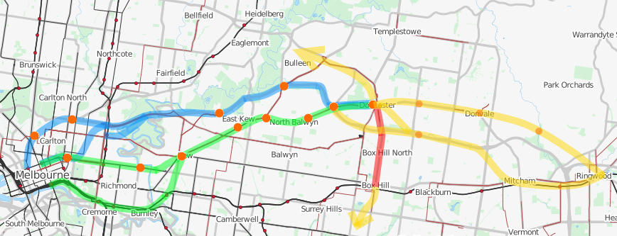 Map of the three railway line route options to Doncaster, Victoria as part of the Doncaster railway line study.